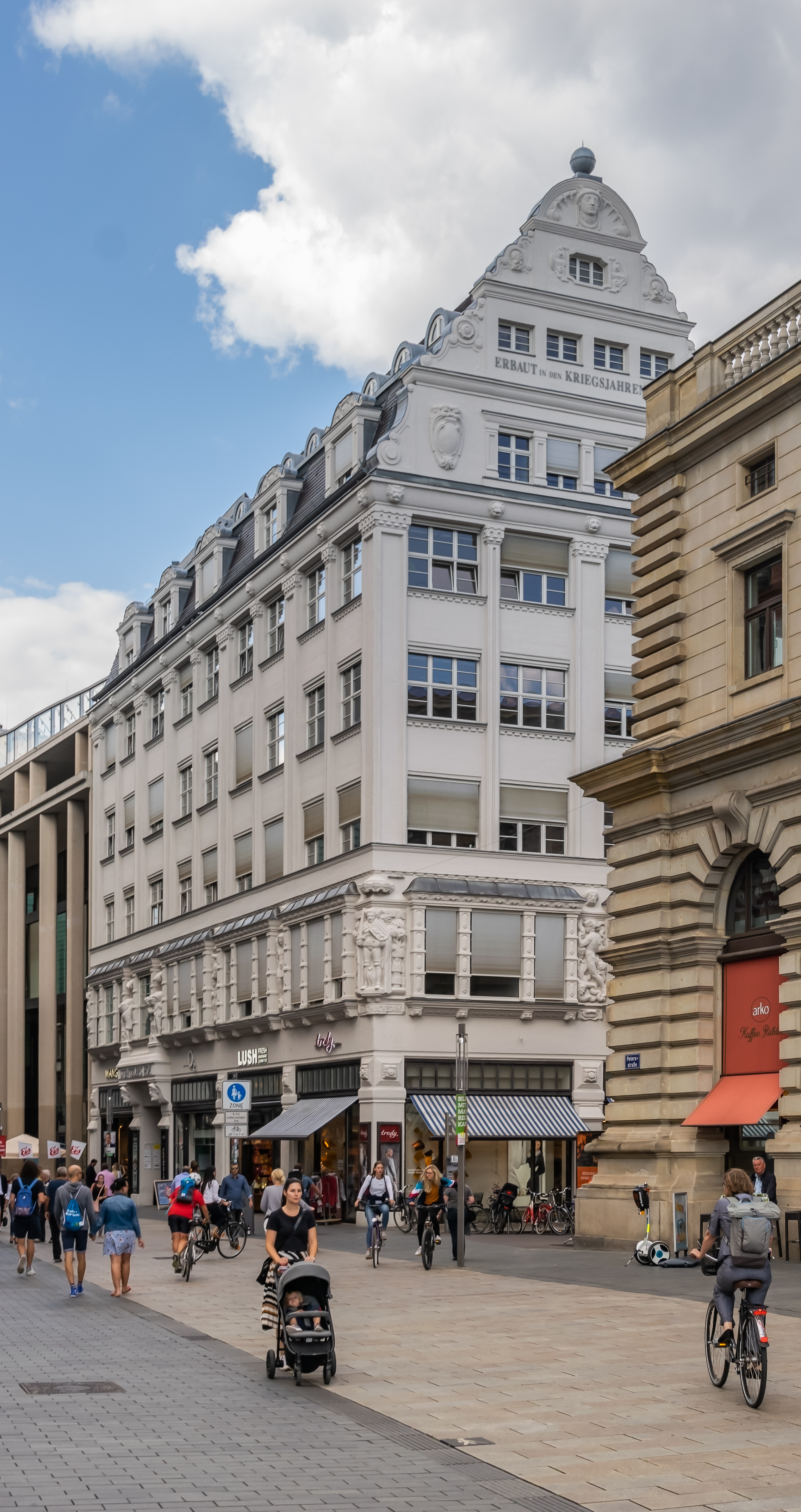 Stenzlers Hof at Petersstraße 39-41 in Leipzig, Saxony, Germany